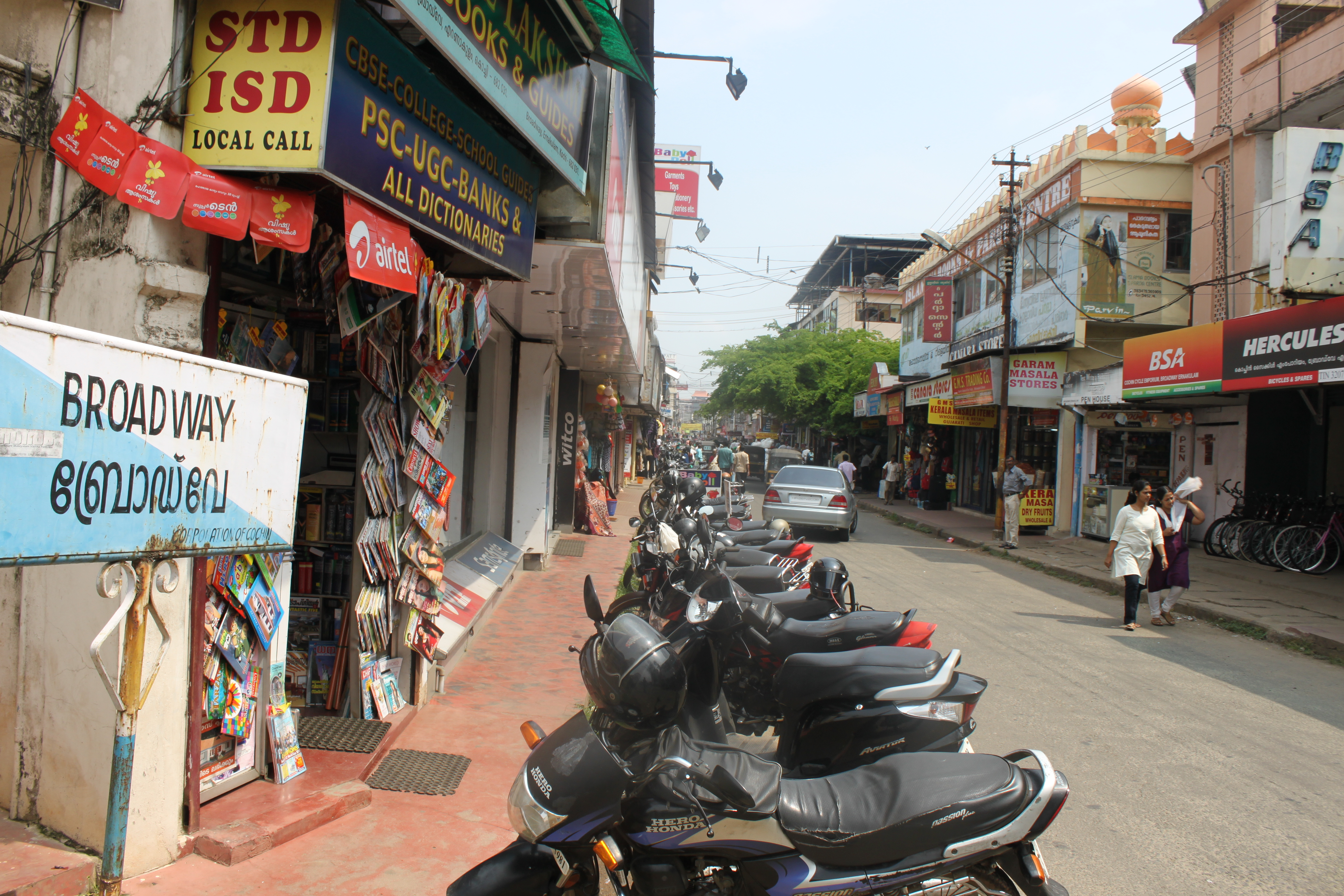 Broadway, Ernakulam, Kerala